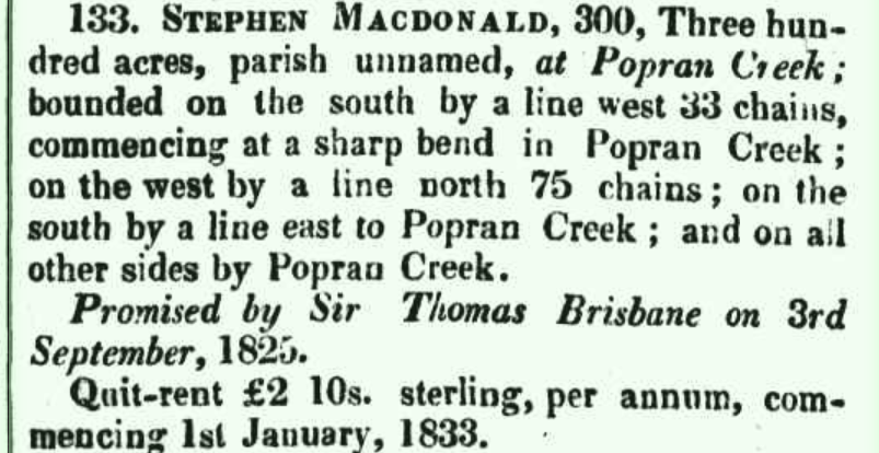 Copy of Land Grant to Stephen MacDonald published New South Wales Government Gazette Sydney, NSW. Published in New South Wales Government Gazette Sydney, NSW 1832 1900 Wed 21 Dec 1836 Issue No.254 Page 974